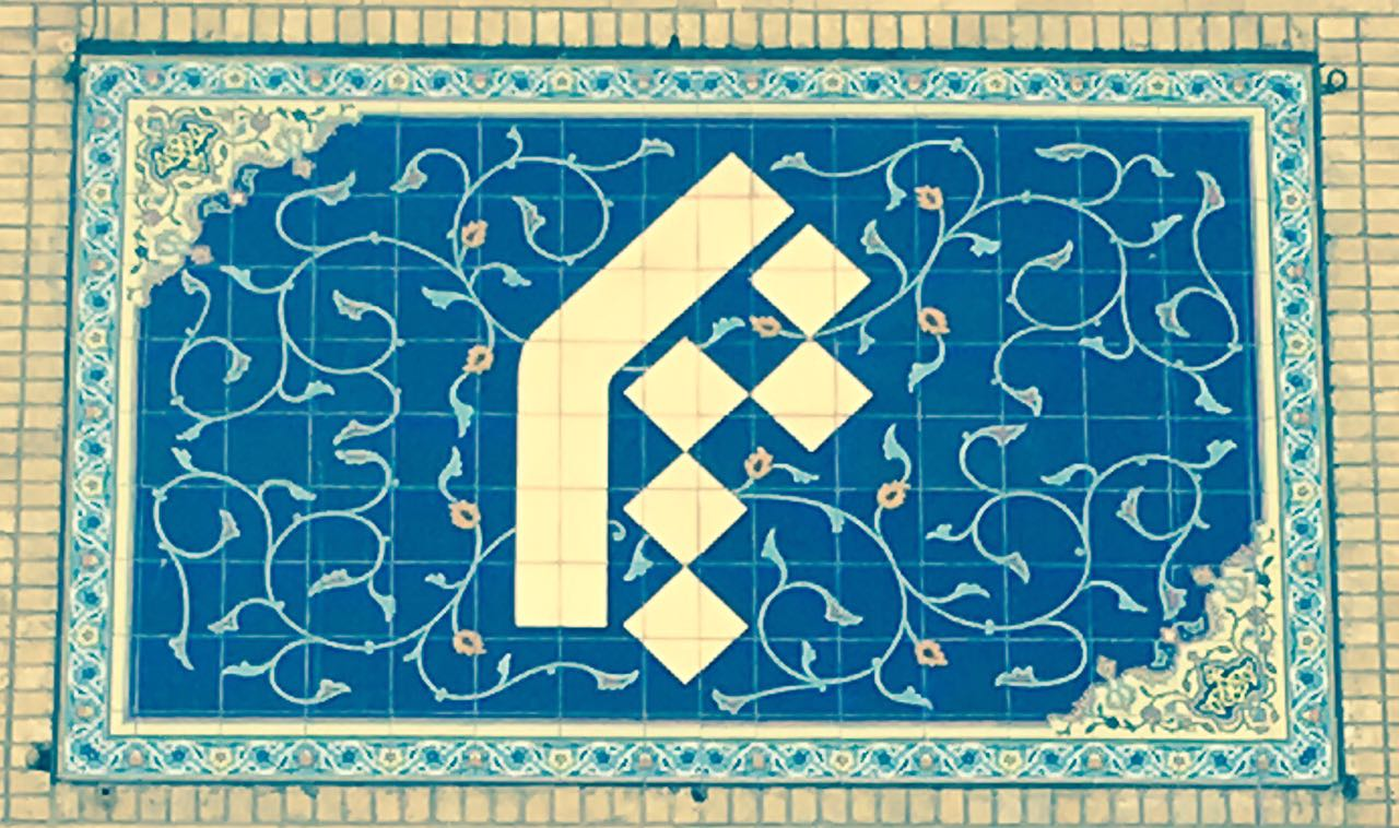 Logo of Al-Mustafa International University